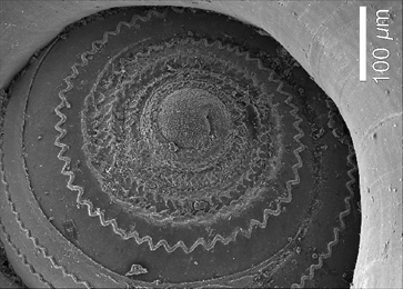 Detail of apical view of the shell of Protatlanta rotundata from the Pliocene. Locality: sample Anda3, Anda, Pangasinan, Luzon, Philippines. Registration number (RGM) 539 785.